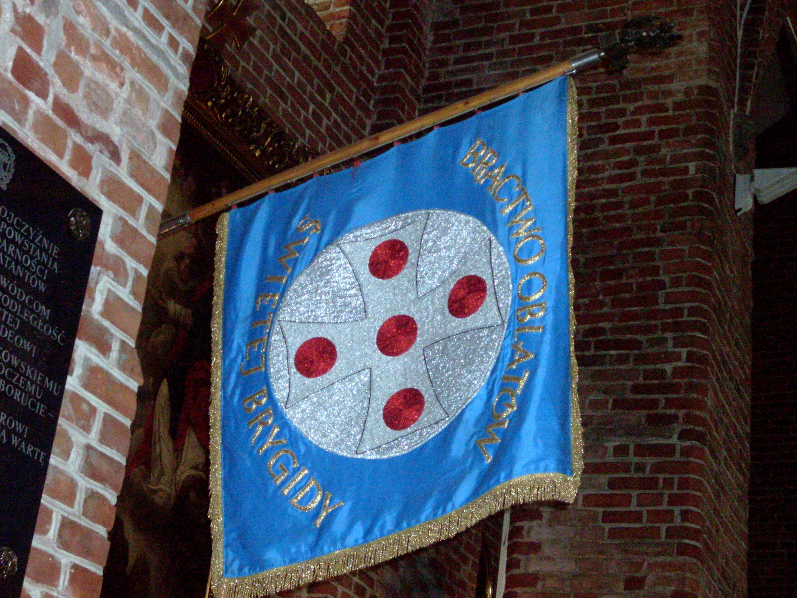 Banner at Church of St. Bridget in Gdańsk.